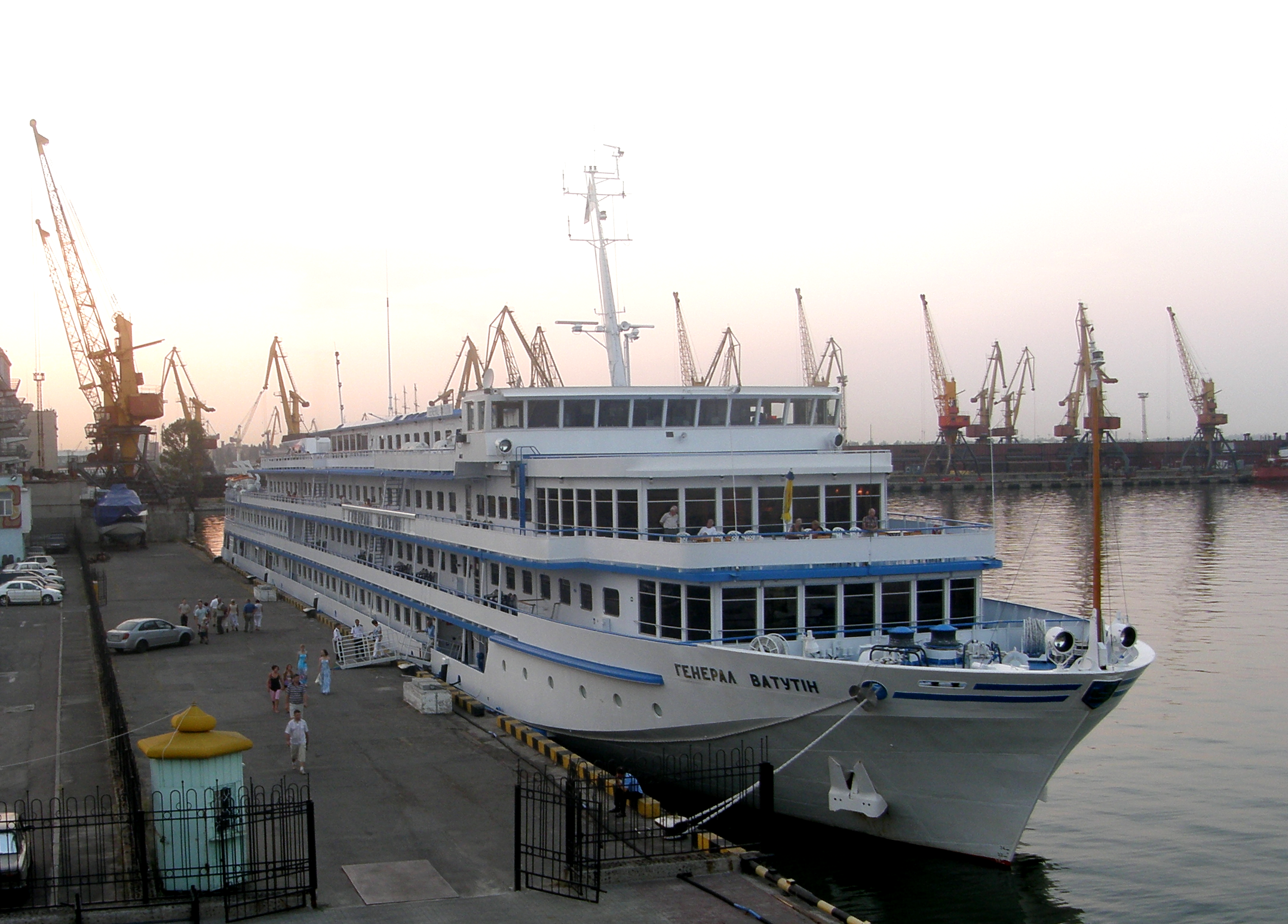 Ukraine, MS General Vatutin in Port of Odessa